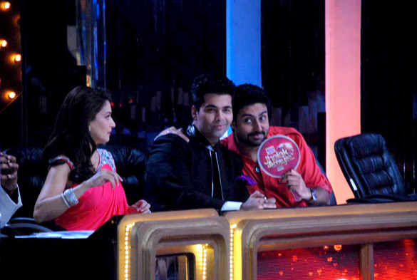 Madhuri Dixit, Karan Johar, Abhishek Bachchan on the sets of 'Jhalak Dikhhlaa Jaa 5'